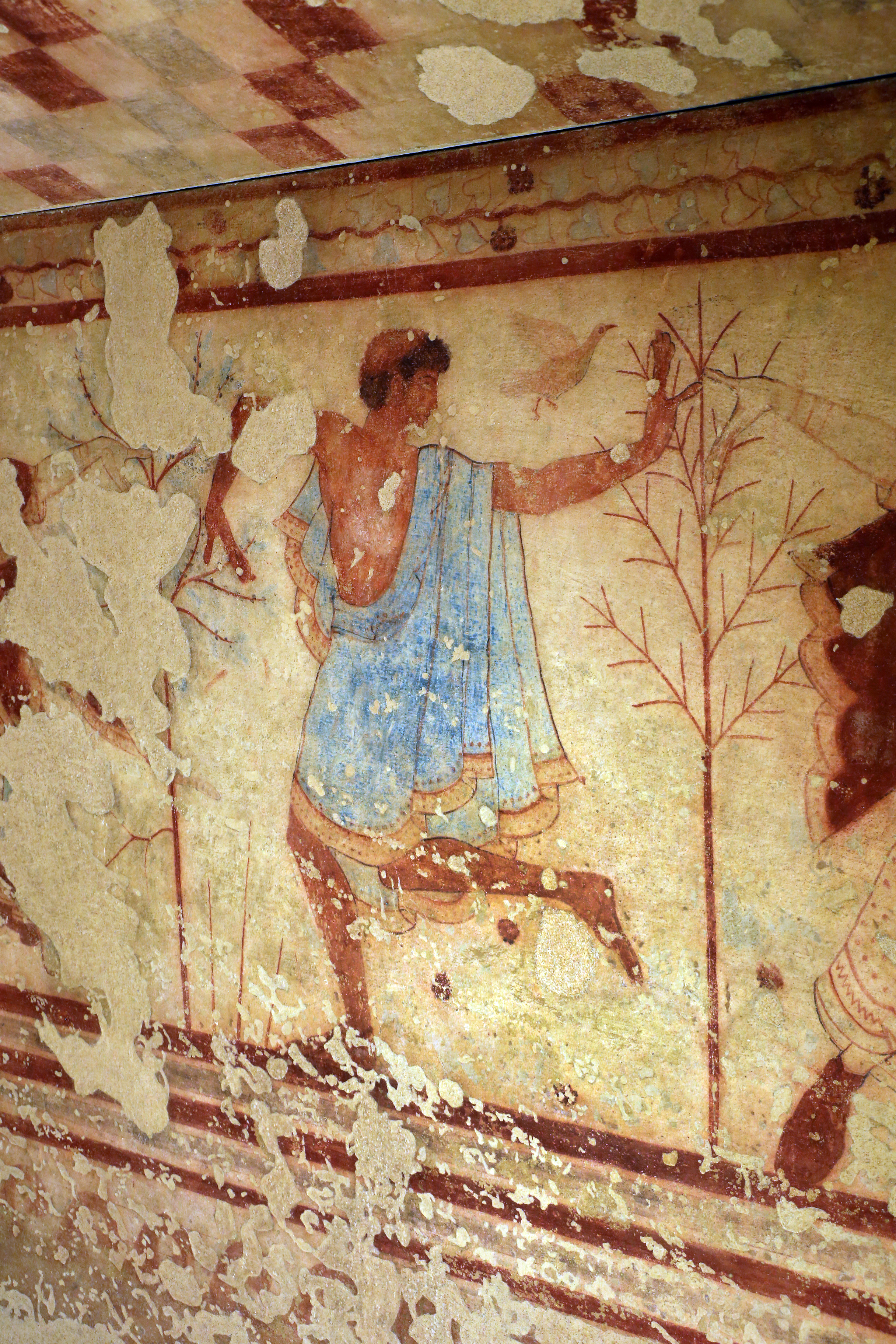 Etruscan antiquities the Museo archeologico nazionale (Tarquinia)